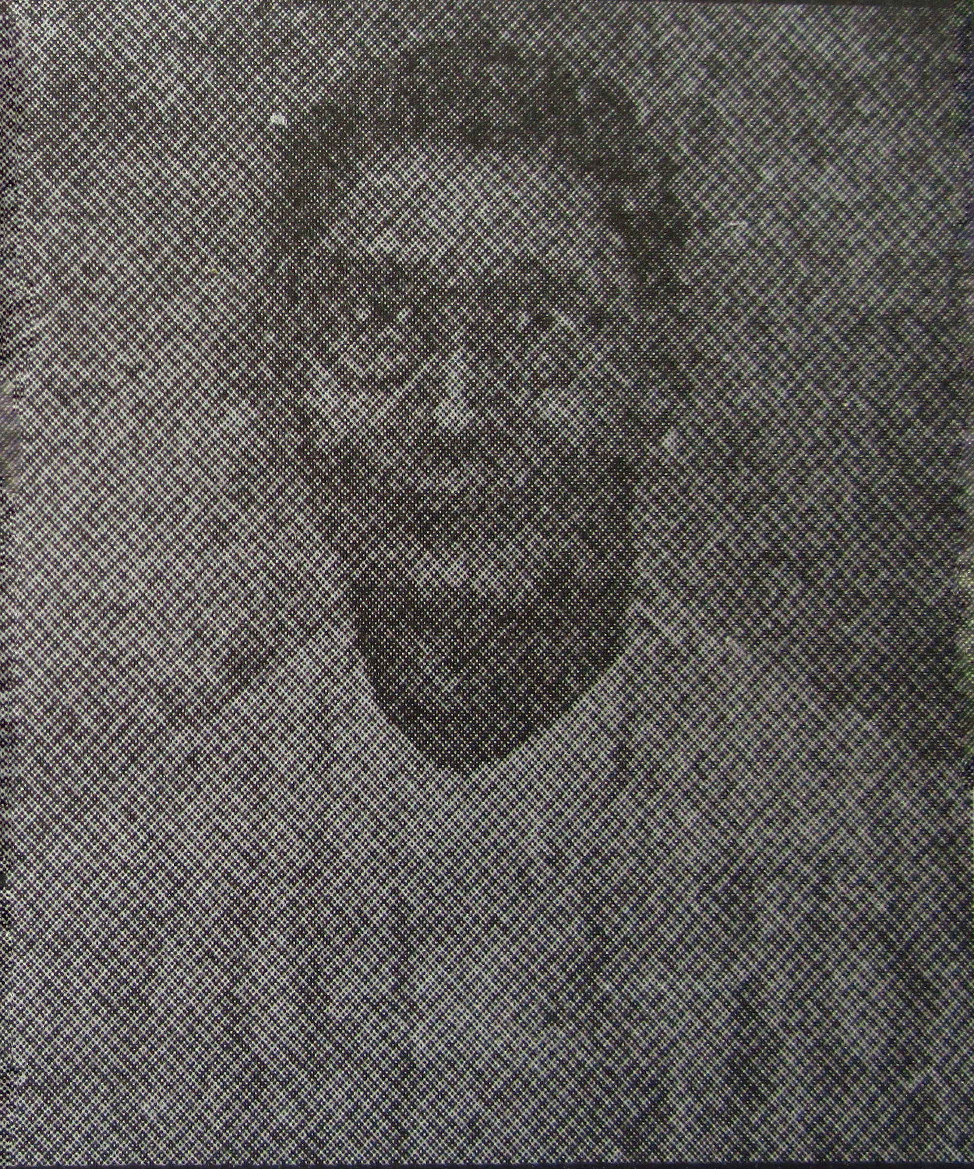 Mukundalal Sarkar